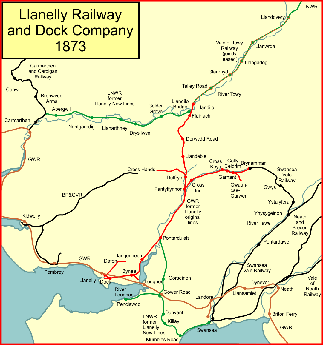 System map of the Llanelly Railway and Dock Company, Wales, in 1873